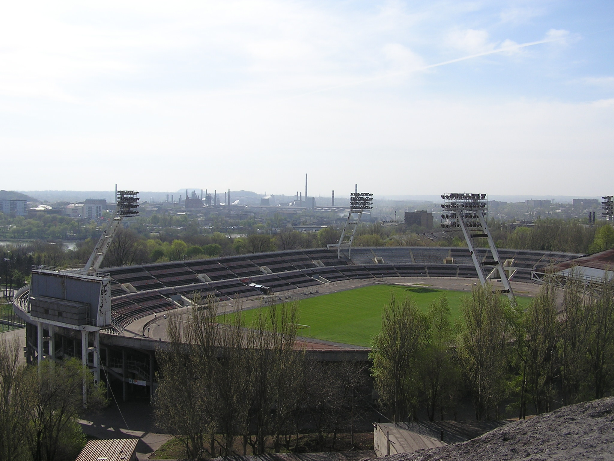 Shakhtar Stadium is a multi-purpose stadium in Donetsk, Ukraine. It is currently used mostly for football matches. The stadium holds 31,718 people. The stadium is currently used by FC Shakhtar Donetsk reserves and FC Metalurh Donetsk for the European competition . The stadium was built in 1936 with the most recent reconstruction in 2000.